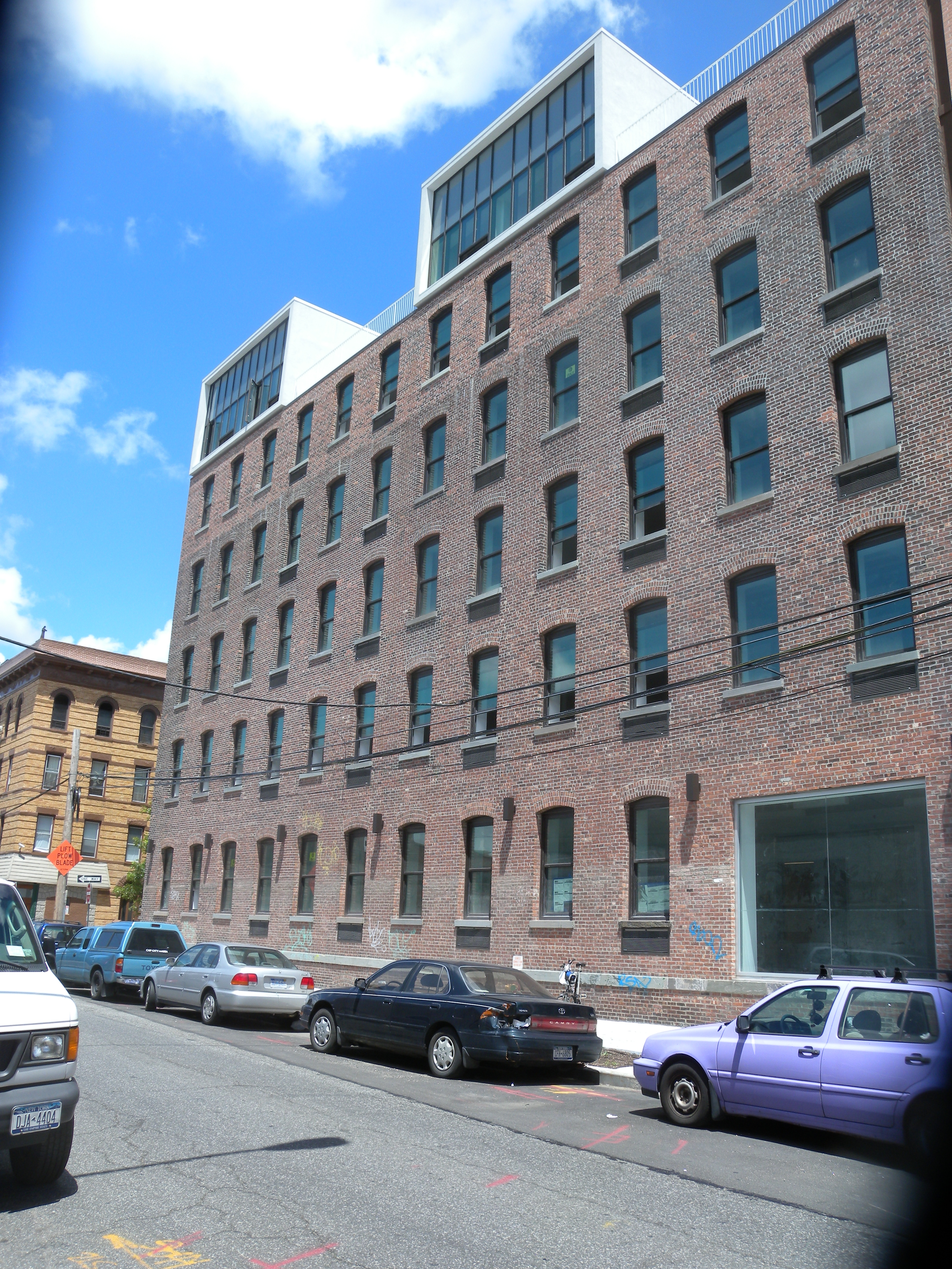 Lookng north along West Street at The Pencil Factory Condominums, formerly a real Eberhart-Faber pencil factory, on a sunny midday.